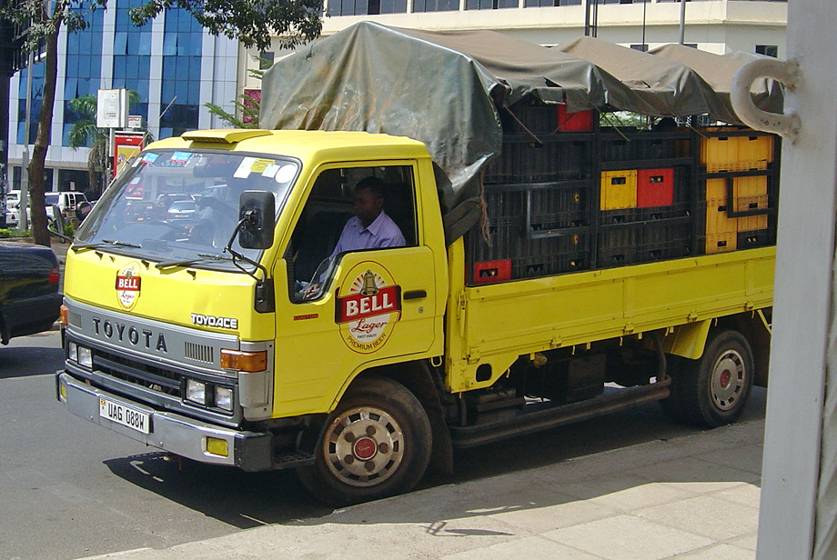 Toyota Toyoace (fifth generation) beer truck in Kampala, Uganda. Crop of Beer truck in Uganda.jpg by Paul Scott at Flickr.